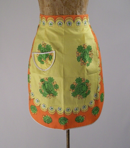 Vintage half apron.